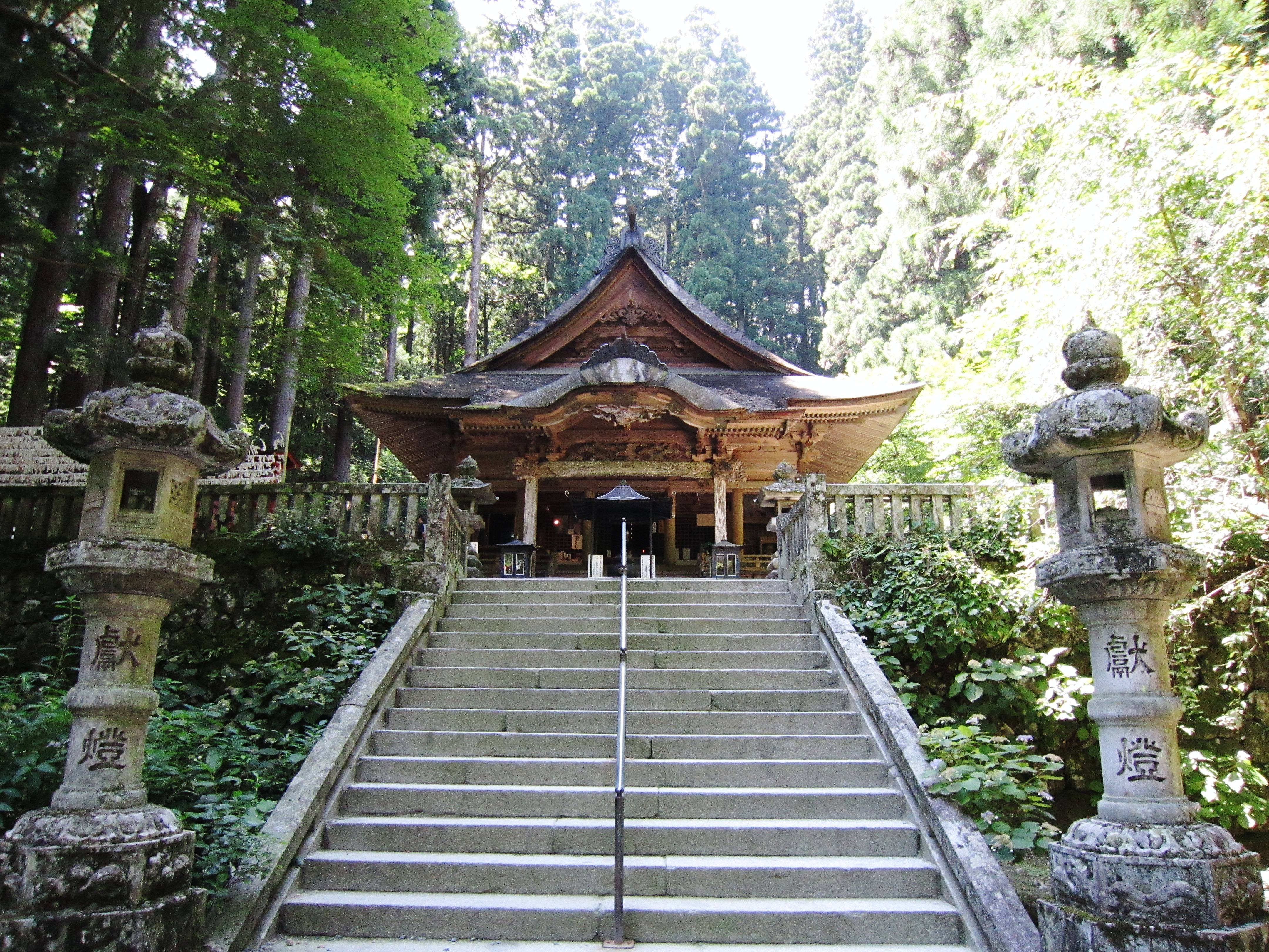 Kōzenji (Komagane, Nagano).